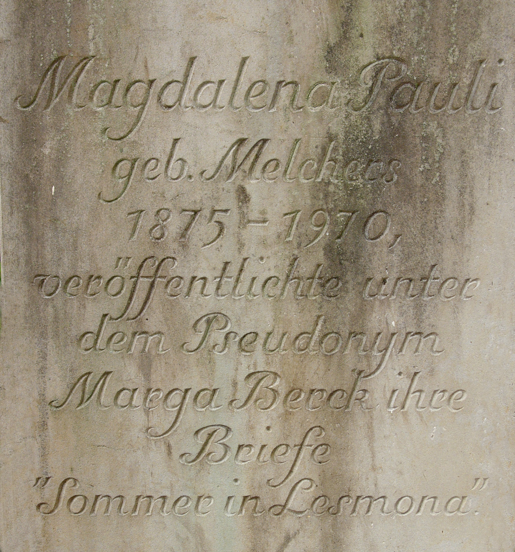 Inscription on the memorial of Magdalena Pauli (Burglesum, Bremen).